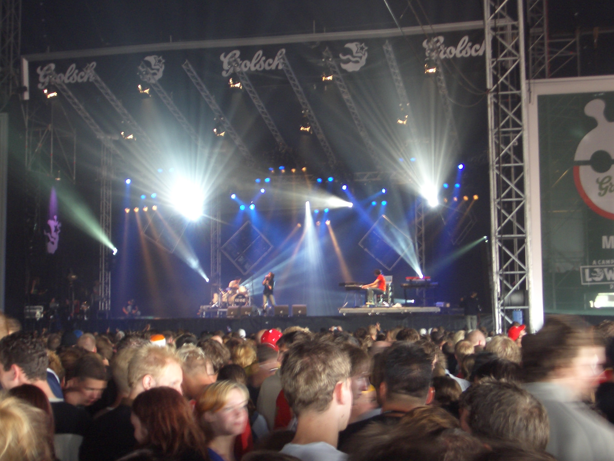 Keane at the Lowlands festival 2004, the Netherlands.IMGP3140